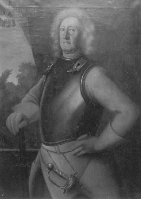 Nils Gyllenstierna af Fogelvik